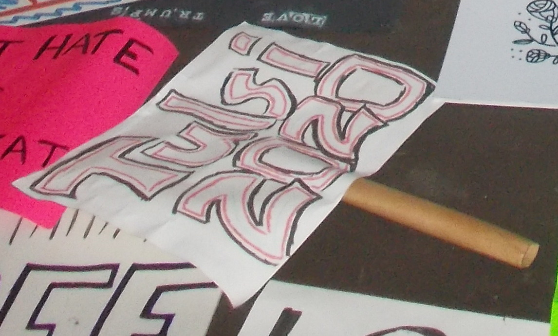 On Saturday, January 21, 2017, hundreds of marches and protests were held all over to support women's rights. I attended the one in New York and here pictures I took.